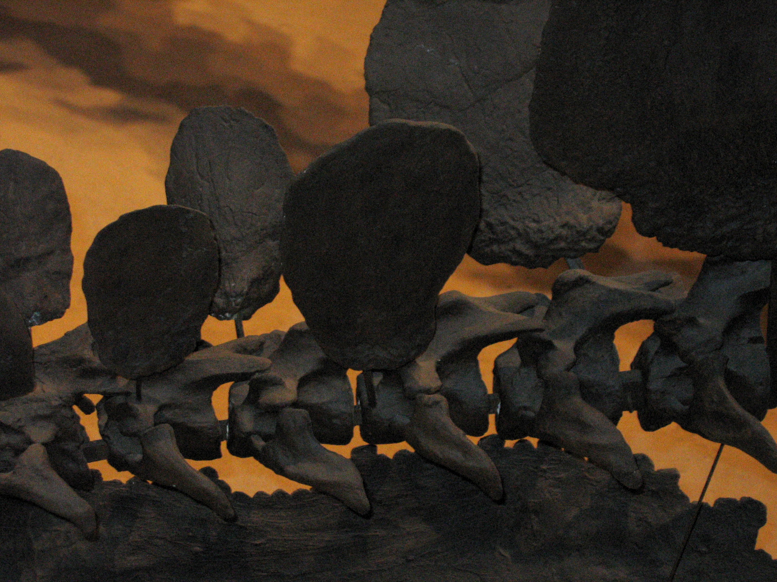 Plates on spine of Stegosaurus fossil at the National Museum of Natural History, Washington, D.C.